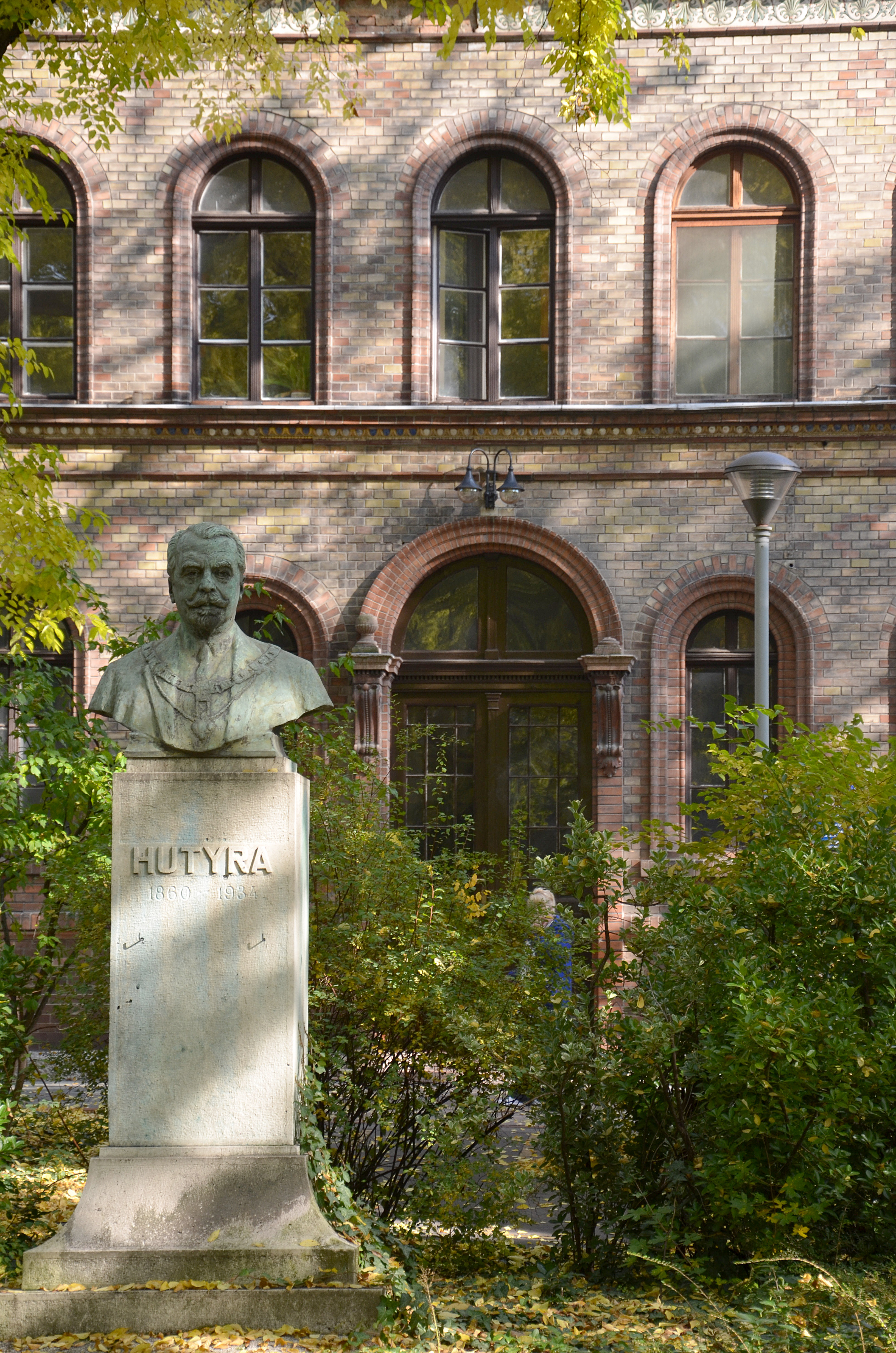 Statue of Ferenc Hutÿra in the campus of the former University of Veterinary Science, Budapest